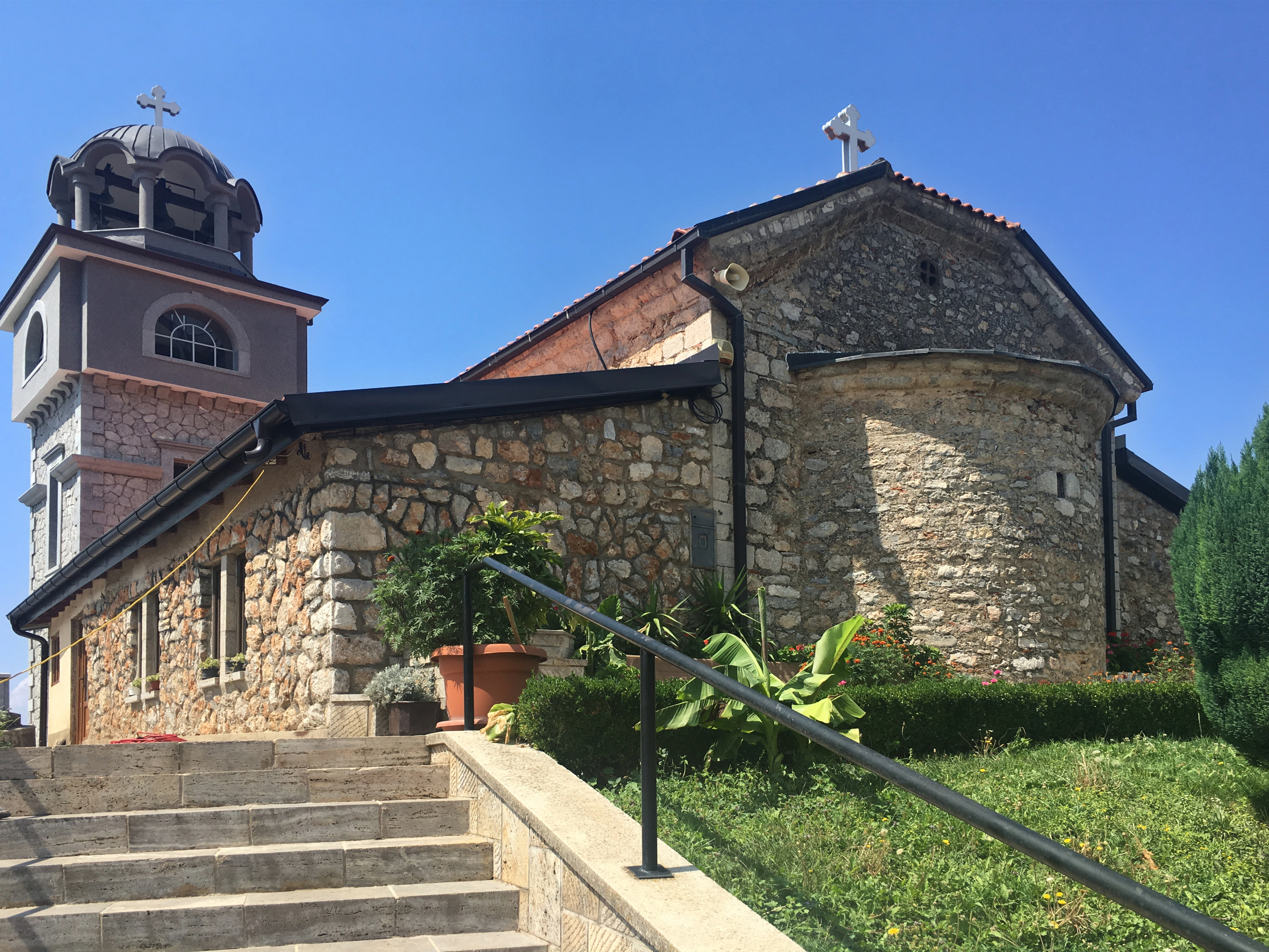 St. Elijah Church in the village of Elšani